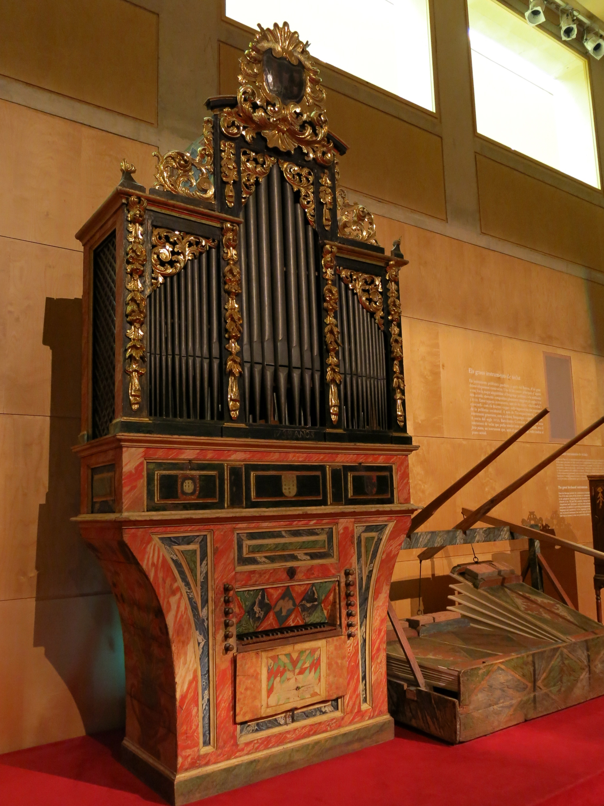 Organ, by Manuel Pérez Molero, in Museu de la Música de Barcelona MDMB 581: Orgue, D. Manuel Pérez Molero (Autor), 1719